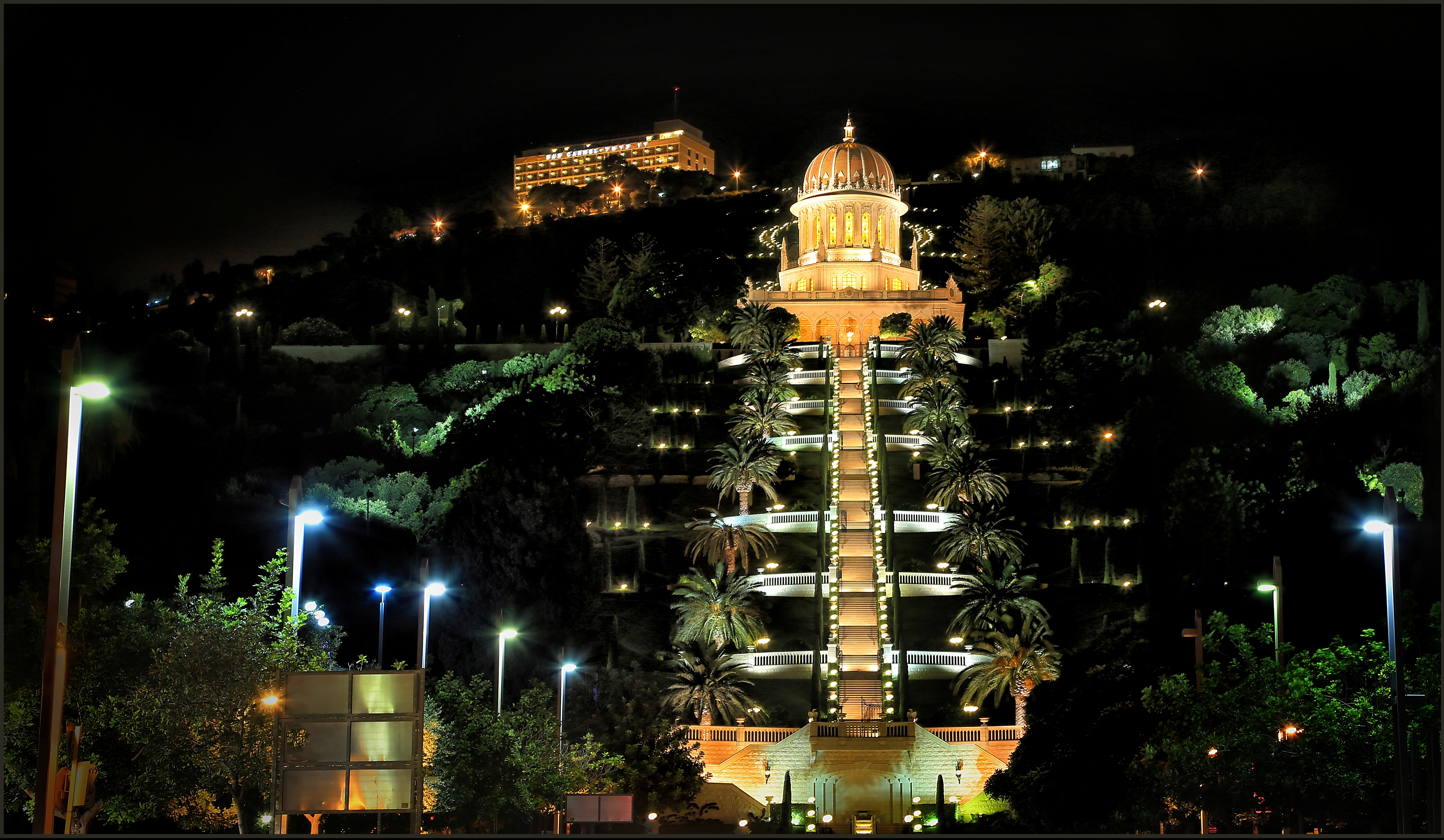 Bahai Garden in Haifa Israel. Was taken from Shderot Ben-Guryon.